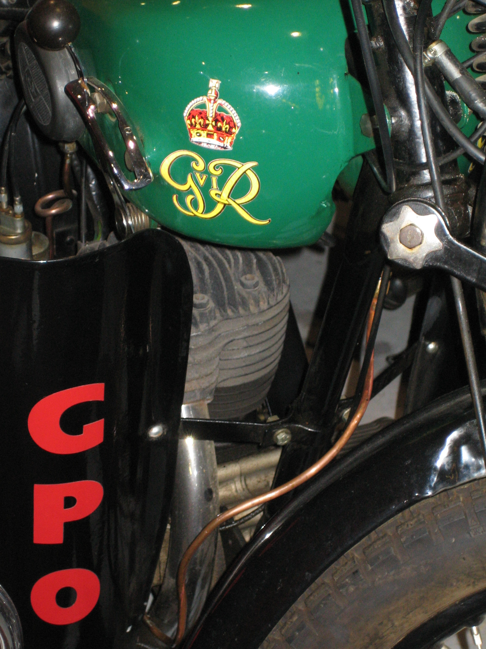 Closeup of 1940s Royal Mail BSA C10 motorcycle